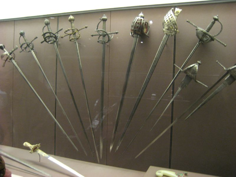 Collection of early modern swords (17th to 18th centuries) at the George F. Harding Collection of Arms and Armor, The Art Institute of Chicago ( From the left: five rapiers, two broadswords (a claymore(?) and a schiavona), another rapier (with cup-hilt), and a parrying dagger (main-gauche). Visible on the right edge: the balde of another rapier, and part of another parrying dagger. Visible at the bottom edge: part of two elaborate decorative short swords, probably from Mughal India[1]. Original description from (the item marked "1" is the cup-hilted rapier on the right (8th from the left), "2" is the schiavona on the right (7th from the left)): Rapiers Or are those sabers? I'm terrible at this. 1: Blade: Italian Hilt: Spanish Cup-hilted rapier in the Spanish manner 1650/60 Steel, iron, wood Length: 50 in. Blade length: 42 3/4 in. Weight: 2 lbs. 11 oz. Item number: George F. Harding Collection, 1982.2147 2: Hilt by Master VG Italian, Venice, active 1790/1800 Schiavona, 1790/1800 Steel, silver, wood, stone Overall length: 42 3/8 in. Blade length: 36 1/2 in. Weight: 2 lbs. 14 oz. Item number: George F. Harding Collection, 1982.2144